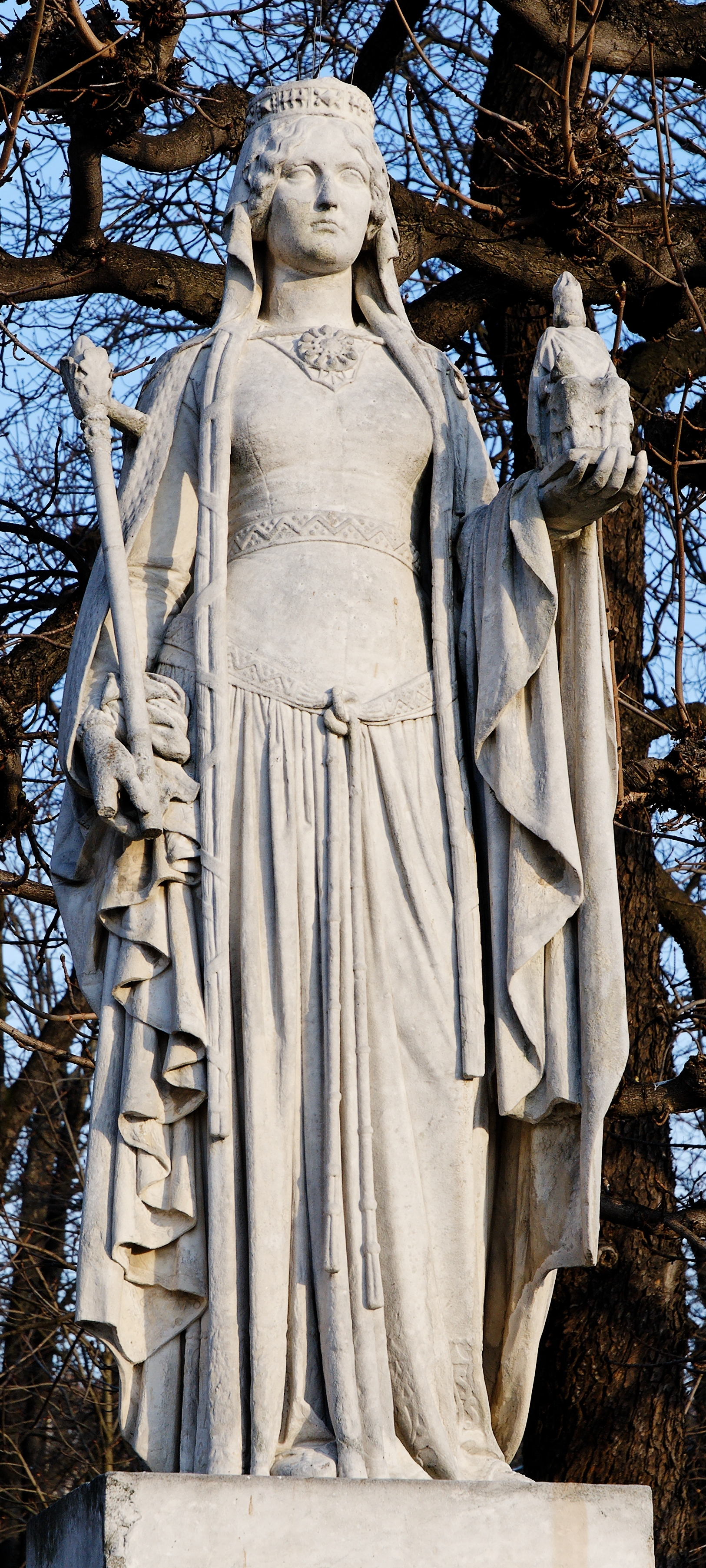 Bertha Broadfoot by Eugène Oudiné. Luxembourg Garden, Paris.